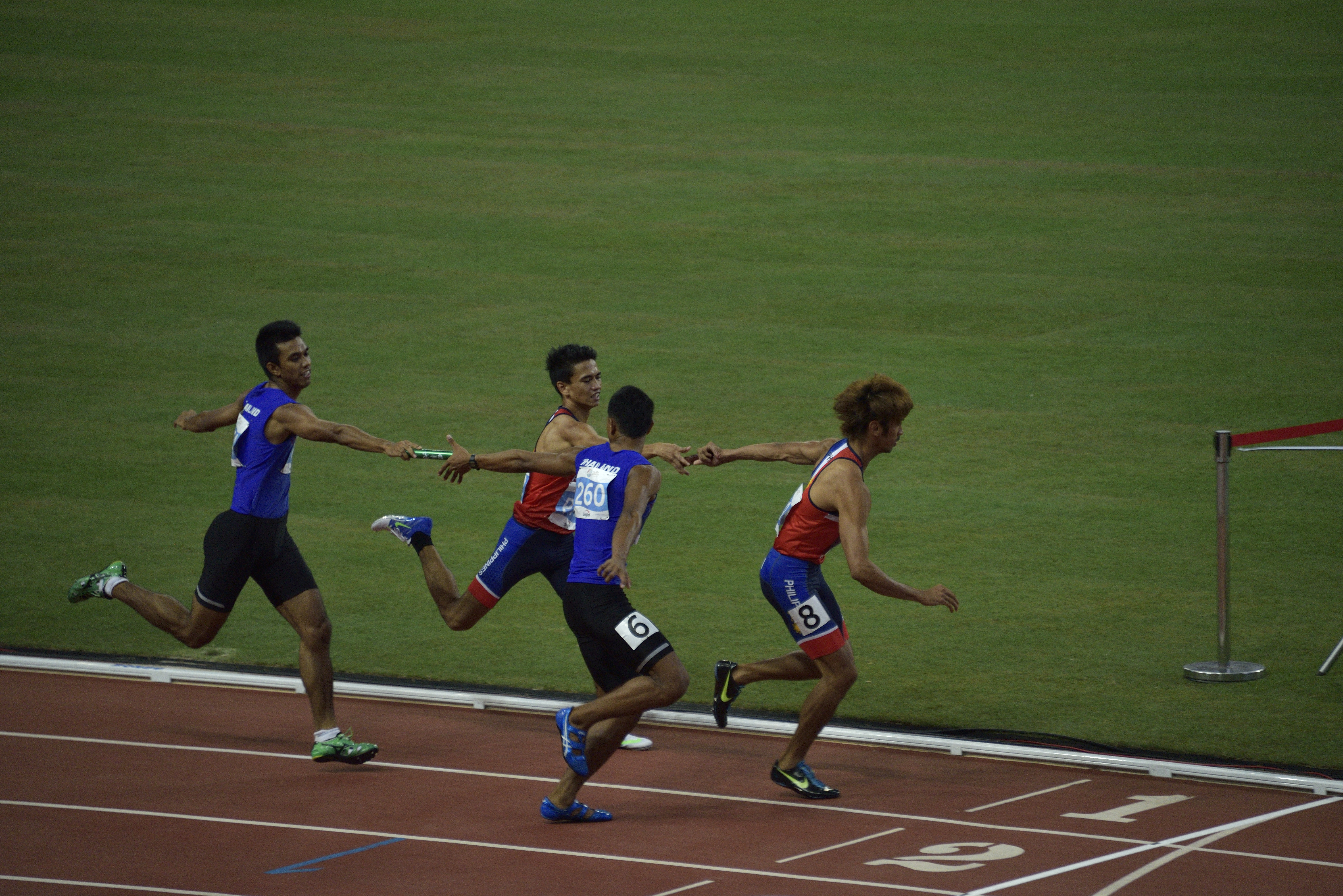 Thai and Filipino athletes competing at the 4×400 m relay event at the 2015 Southeast Asian Games